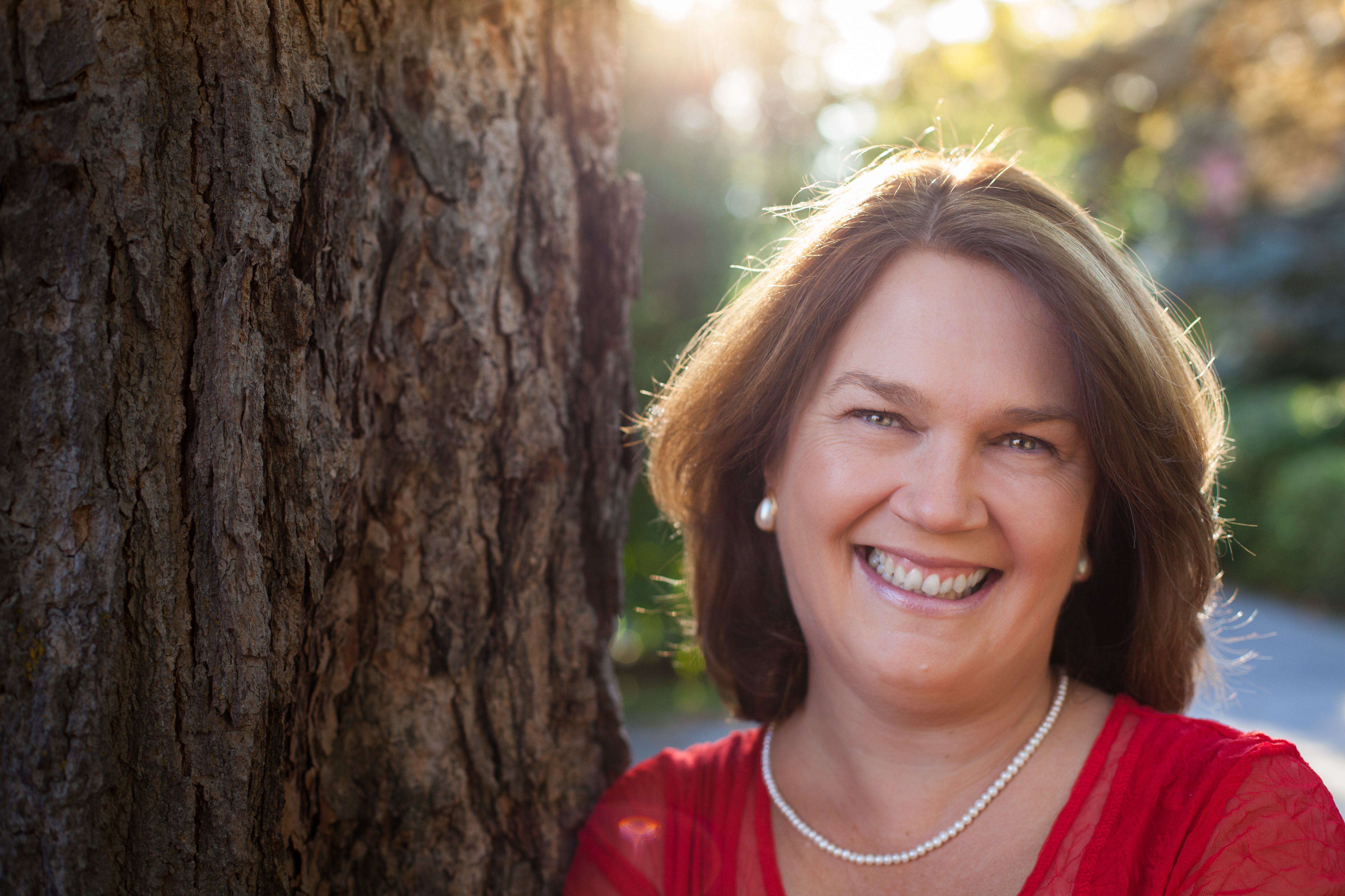 Photo of Dr Jane Philpott